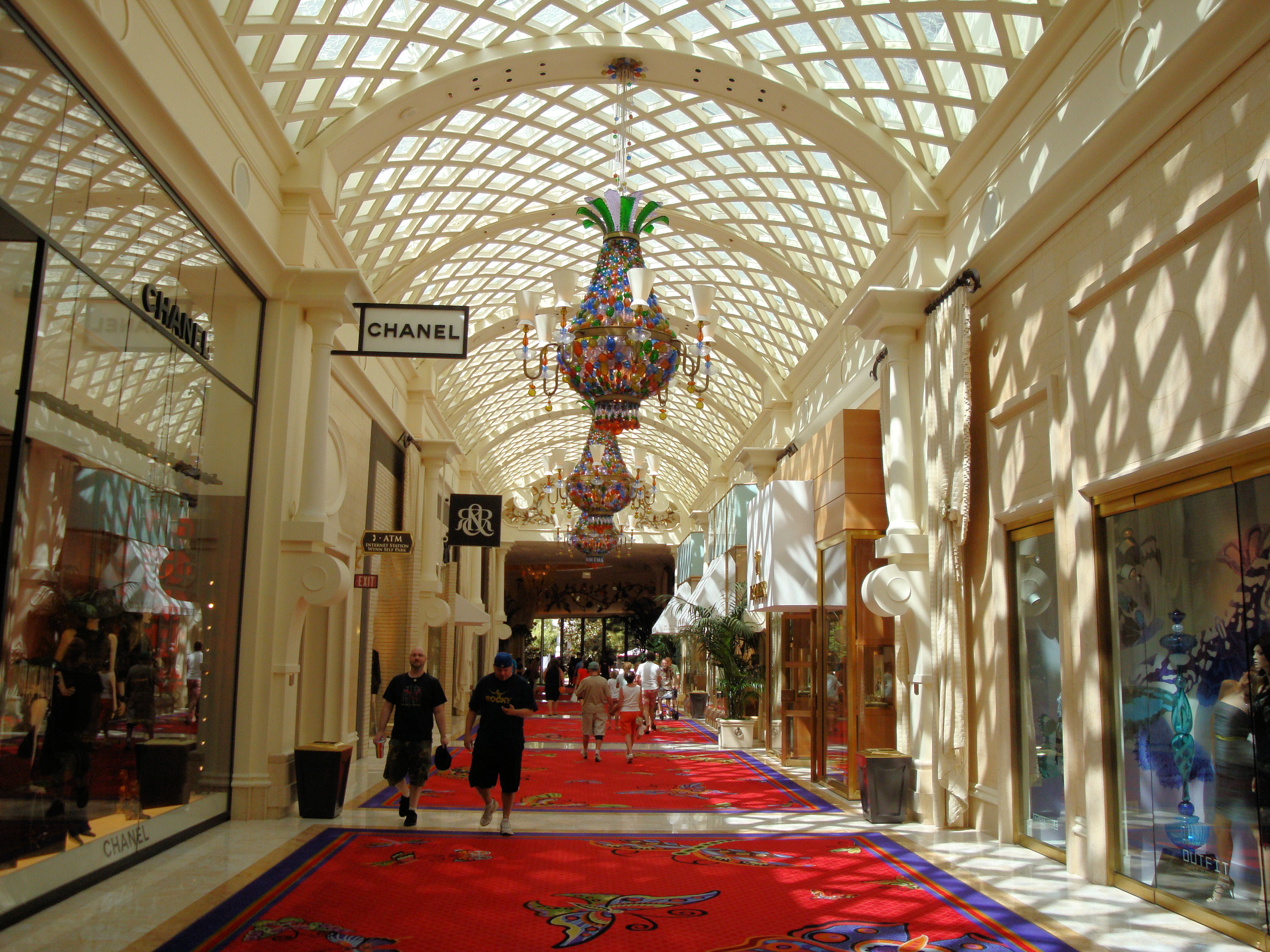 The Encore Hotel and Casino, Las Vegas, Nevada.